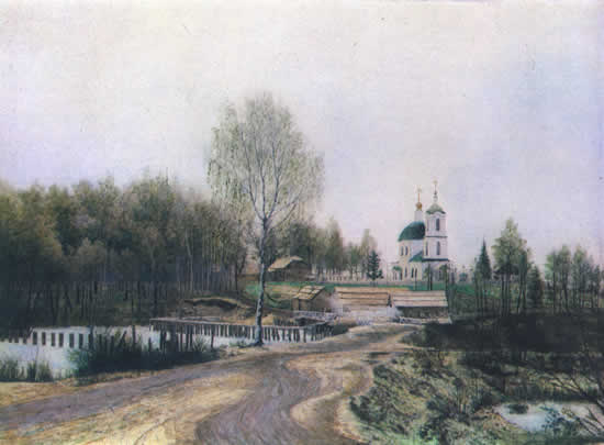 Novospasskoe (Smolensk Oblast)